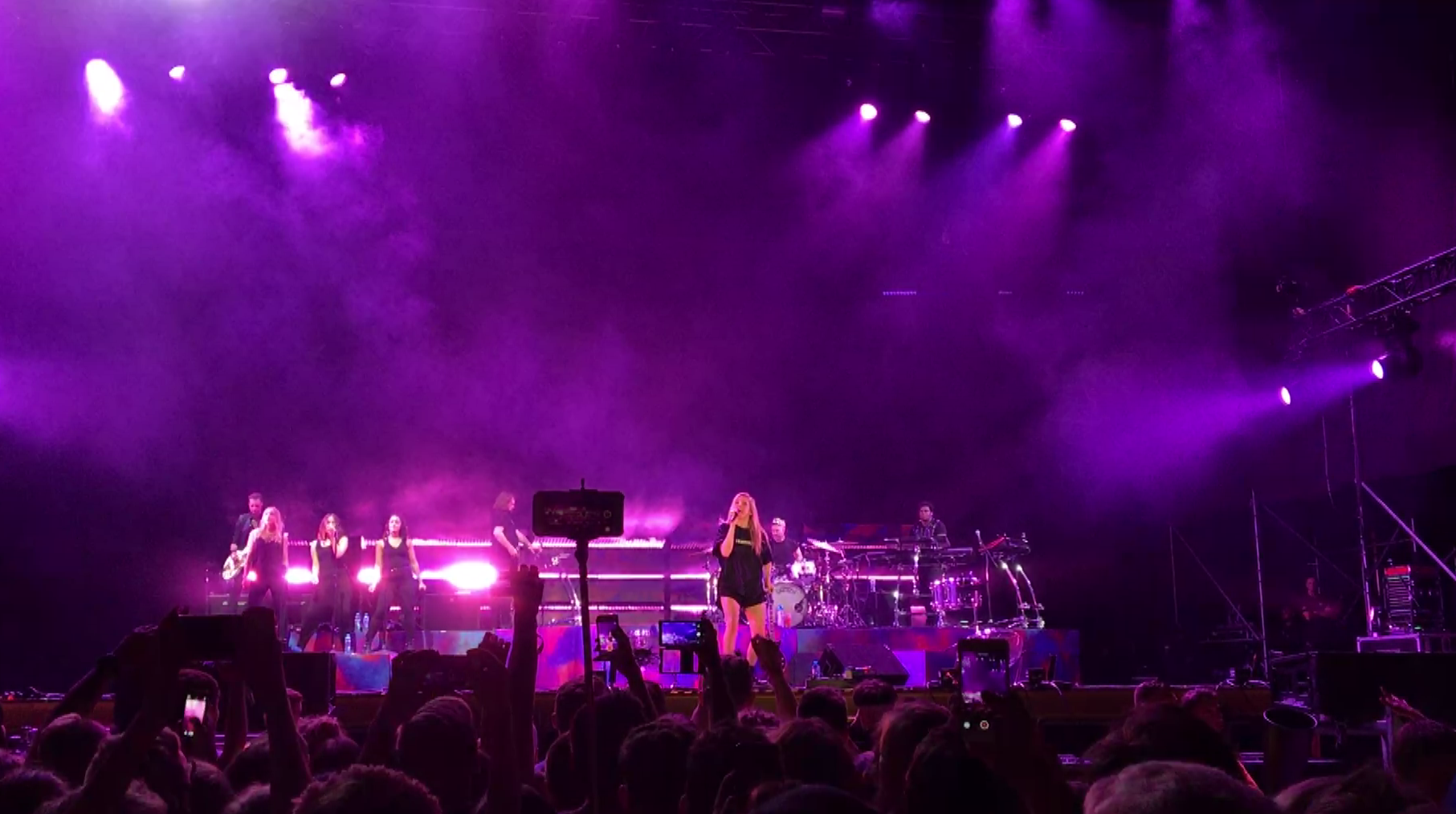 Ellie Goulding at Kraków Live Festival 2017